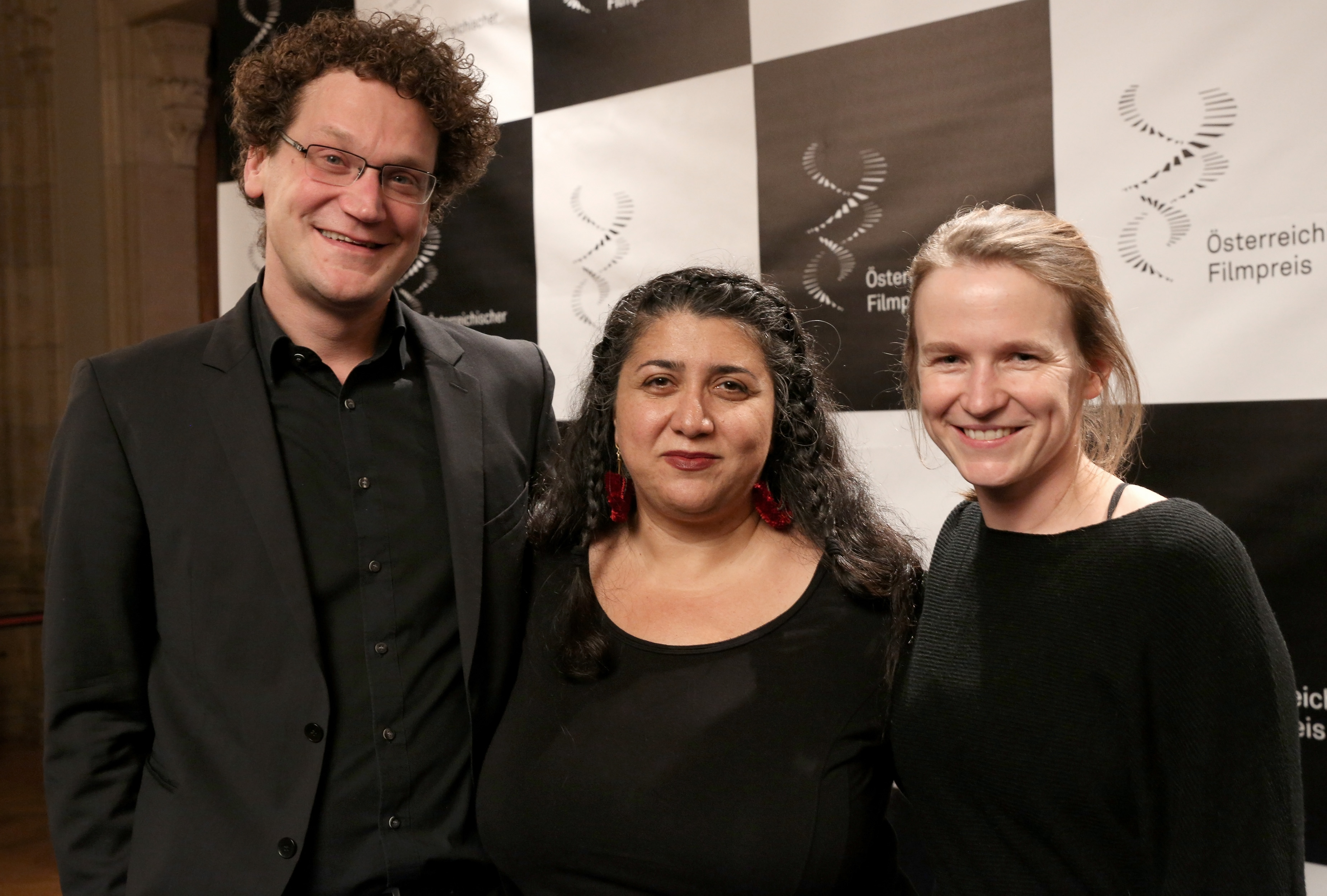 Oliver Neumann, Sudabeh Mortezai and Sabine Moser (Macondo) at the Austrian Film Awards 2015 at Rathaus, Vienna,Austria.